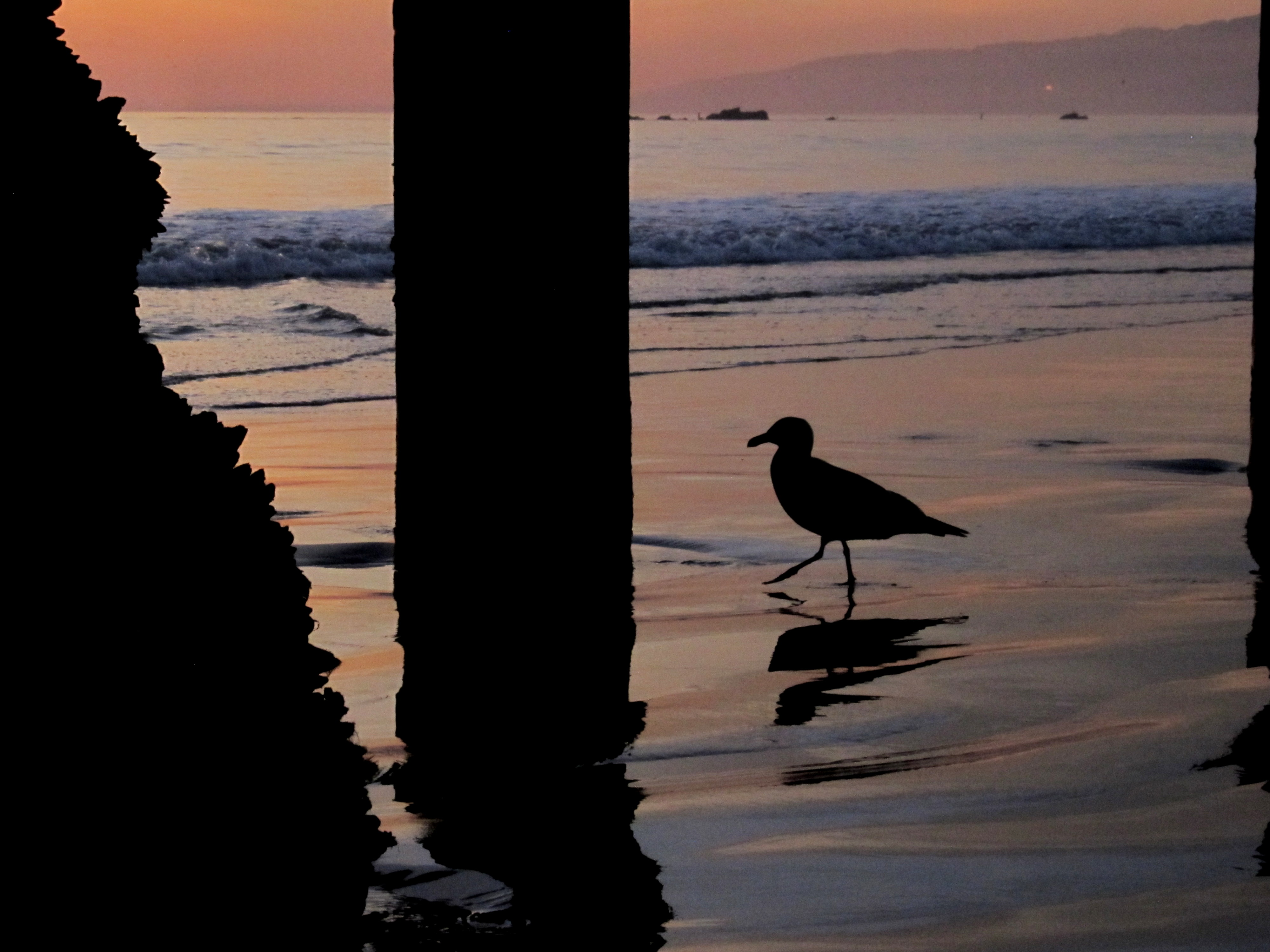 A common seagull found in LA.